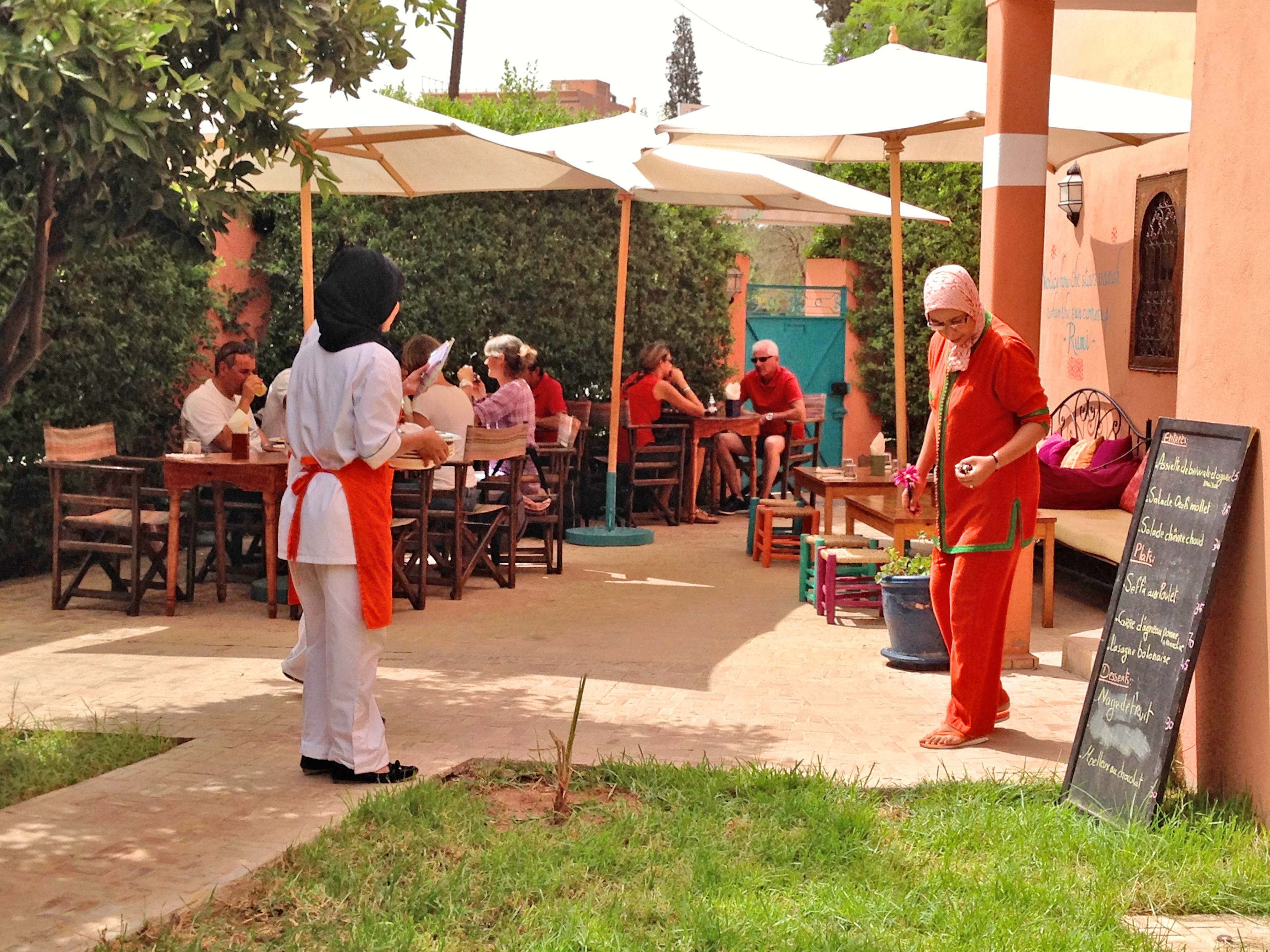 Marrakech Association Amal Sept 2014 - 41 Amal Women's Training Center and Moroccan Restaurant outdoor seating